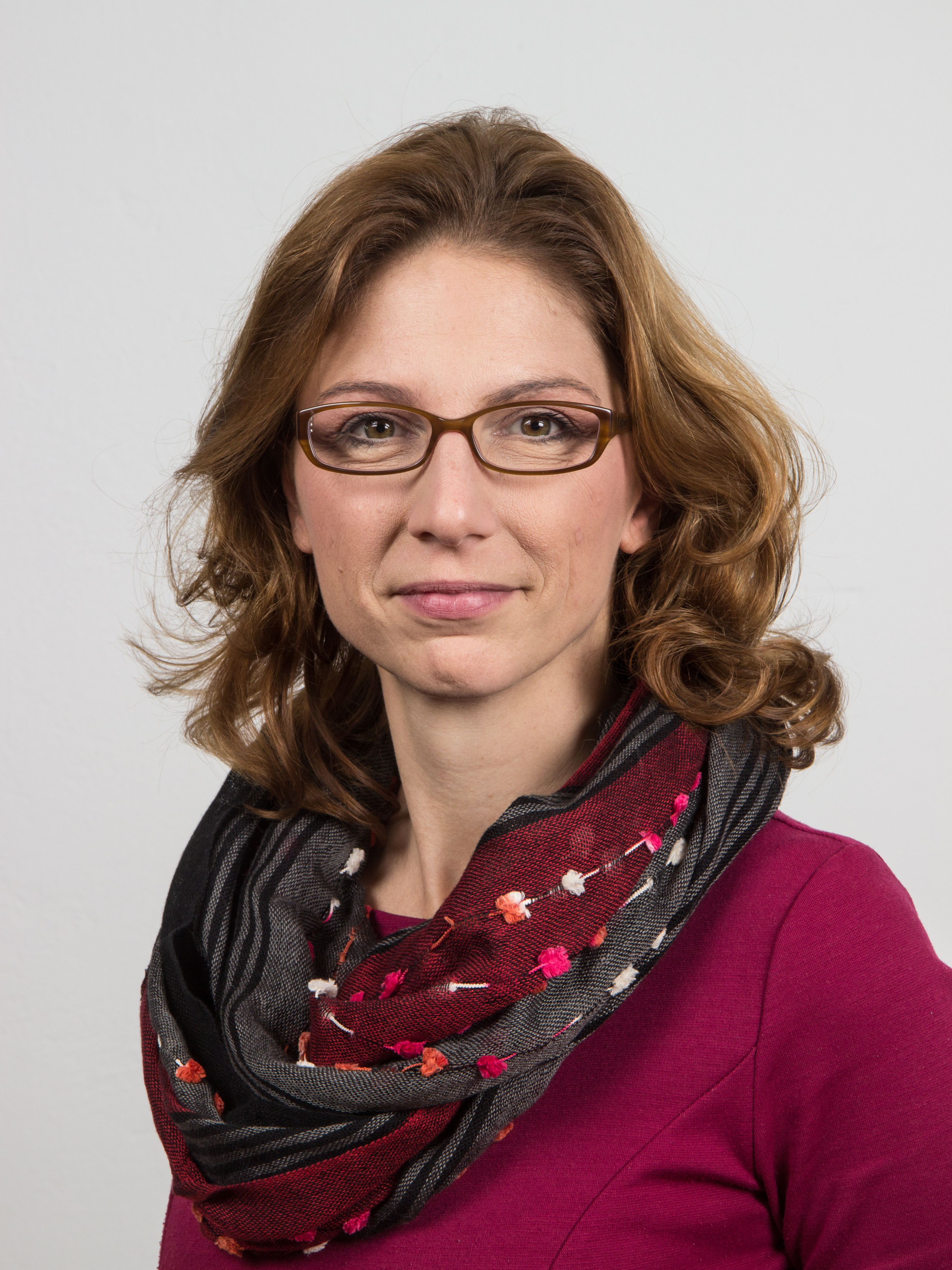 Sabine Bätzing-Lichtenthäler, State Minister for Social Affairs of Rhineland-Palatinate